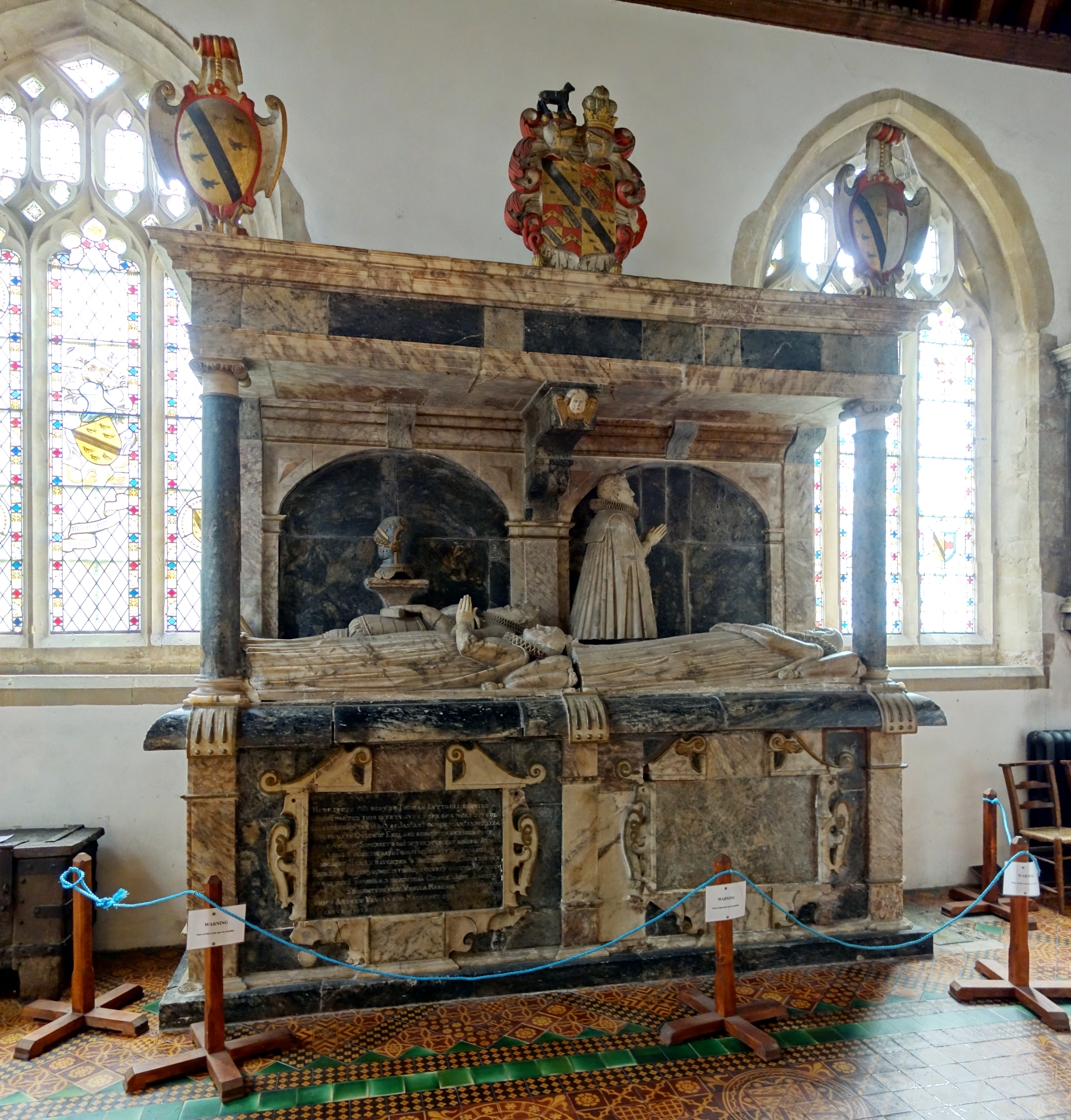 Monument in Dunster Priory Church of St George, Somerset, England, to (left) Thomas Luttrell (d.1571) of Dunster Castle. Inscription: Here lyeth the body of Thomas Luttrell Esquire who departed this lyfe in sure hope of a most joyful resurrection the 16 day of Jany Ano Dom 1570 Ano 13 of Elizabeth late Queene of England, being then High Sheriff of the Countie of Somerset & one of the youngest sones of Andrew Luttrell, Knight, the sayd Thomas being lawfully married unto Margaret Hadley daughter & sole heire of Christopher Hadley of Wythycombe in the sayd county Esquire, by whom he had issue 3 sonnes & 3 daughters, George, John, Andrew, 3 daughters vidz Ursula, Margaret and Mary the which Andrew, Ursula and Margaret dyed without any issue of their bodyes. Heraldry: top left, Luttrell; top right, Luttrell impaling Popham; centre, Luttrell quartering: quarterly of four, 1&4: Hadley, 2&3: Durborough of Withycombe